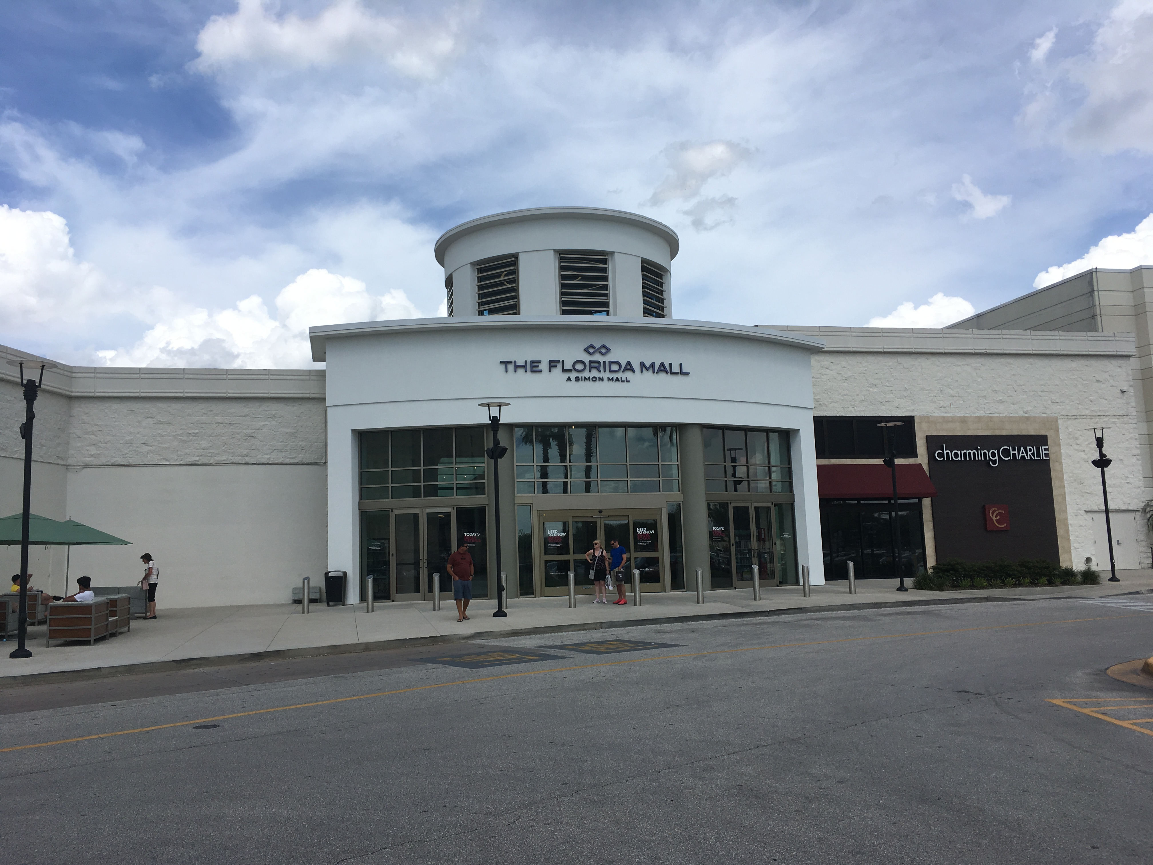 The west entrance of The Florida Mall in Orlando, Florida near Macy's